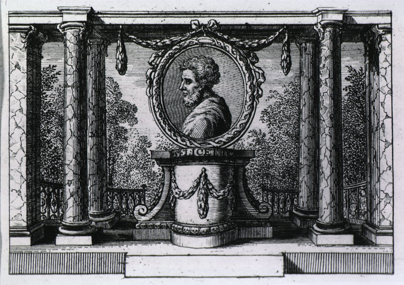 From the collection of the U.S. National Library of Medicine. From Giovanni A. Brambilla, [Milano, Imperial monistero di S. Ambrogio Maggiore, 1780-1782], v. 1, p. 39, Storia delle scoperte fisico medico anatomico-chirurgich e fatte dagli uomini illustri italiani ...